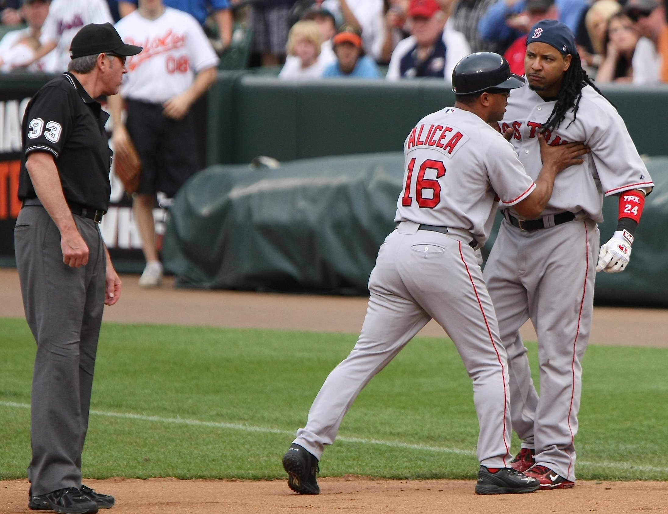 Manny Ramirez wants to hit a umpire during a game.